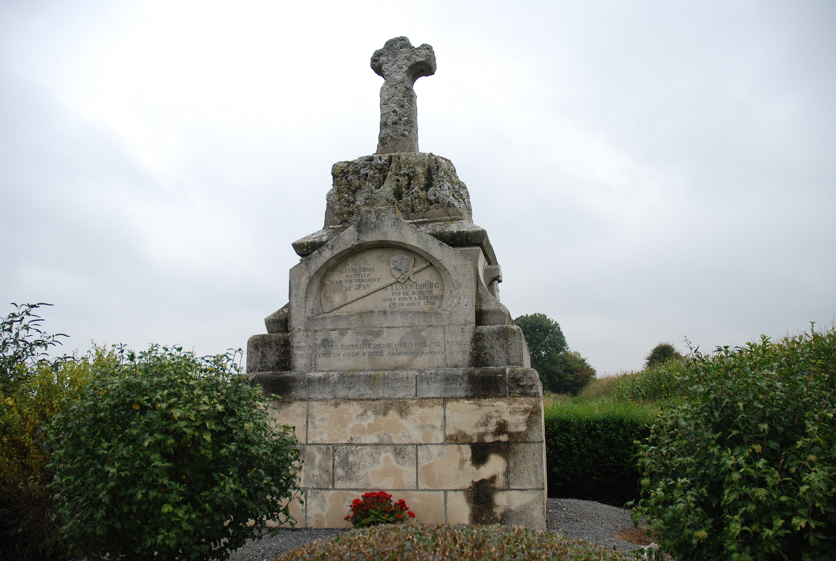 Memorial in Estrées-lès-Crécy, near Crécy-en-Ponthieu, France, for John of Bohemia